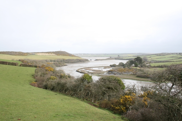 Little Petherick Creek and Sea Mills. On the right of the creek is Sea Mills 721837, a former tidal mill, and in the distance, at the foot of the creek, the railway viaduct (now part of the Camel Trail). The Dennis Hill obelisk is visible to the left of centre.